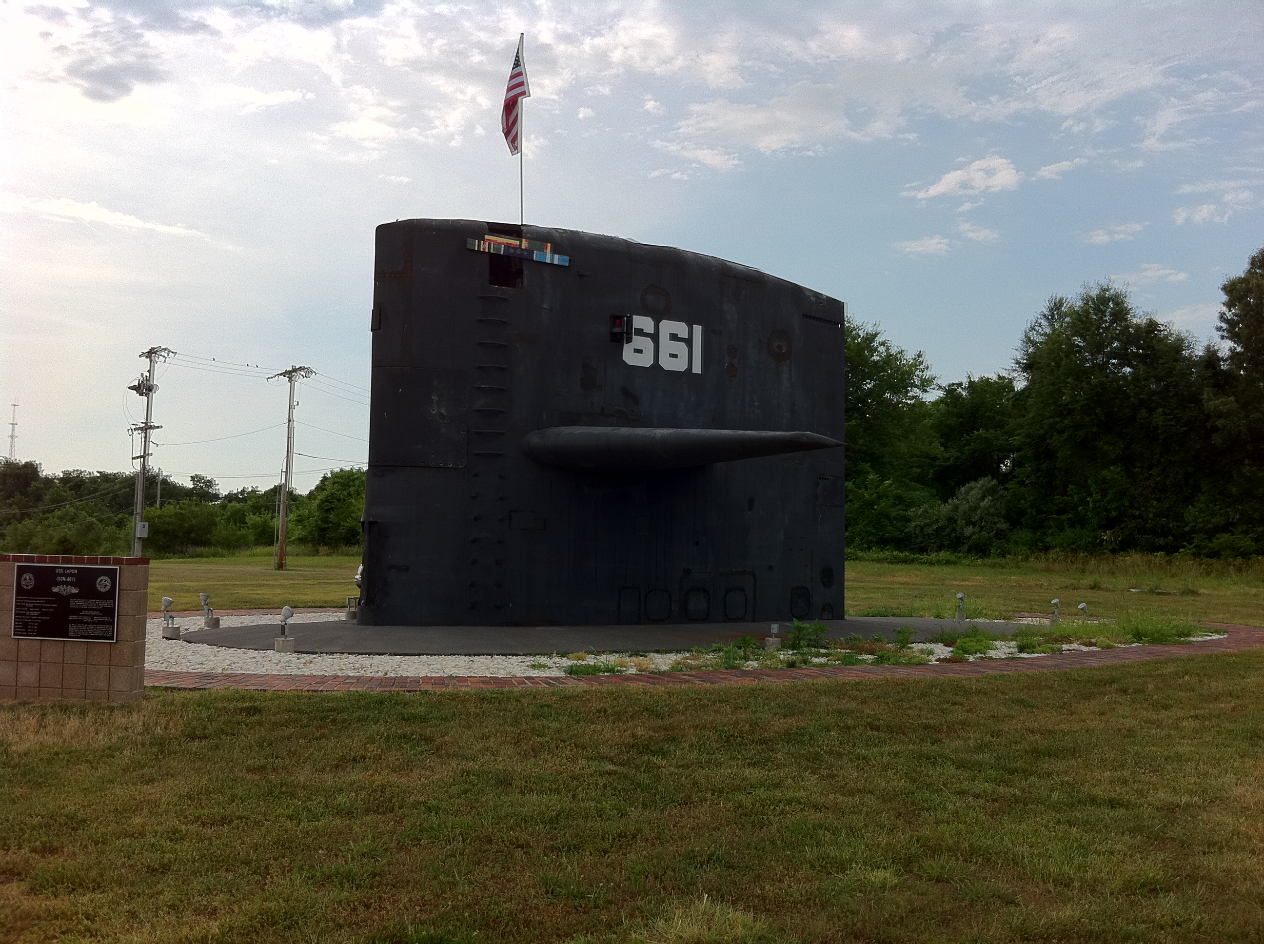 USS Lapon (SSN-661) Sail only. Located at the American Legion Post 639, Springfield, MO